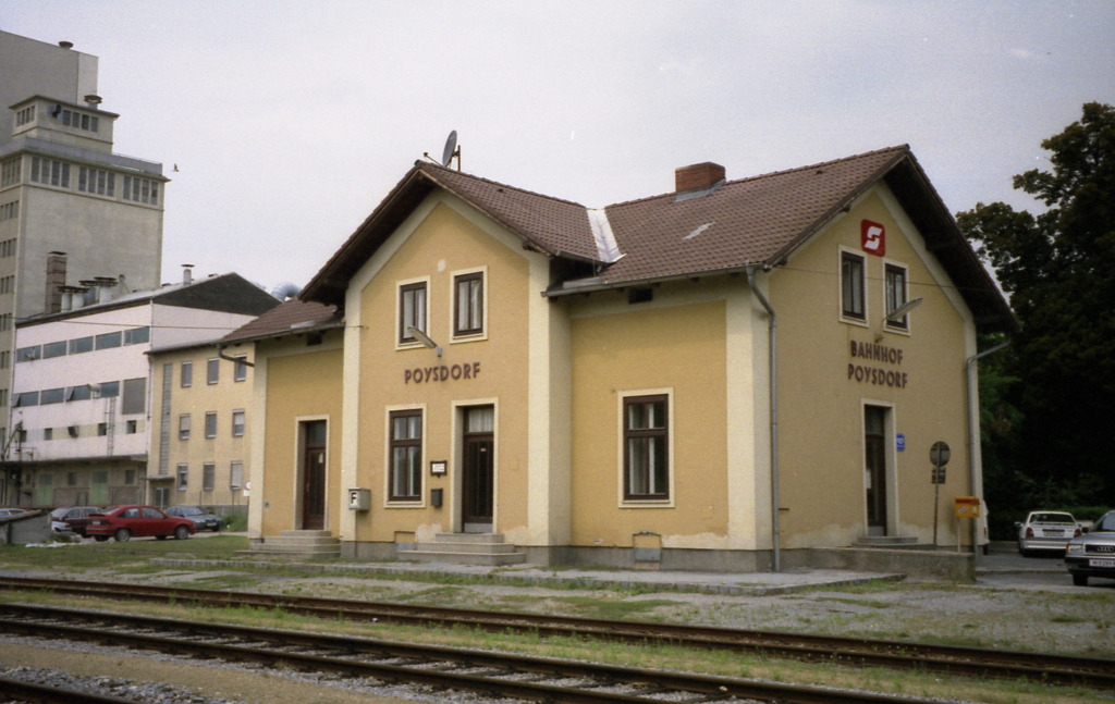 Poysdorf train station (not in use), in Lower Austria